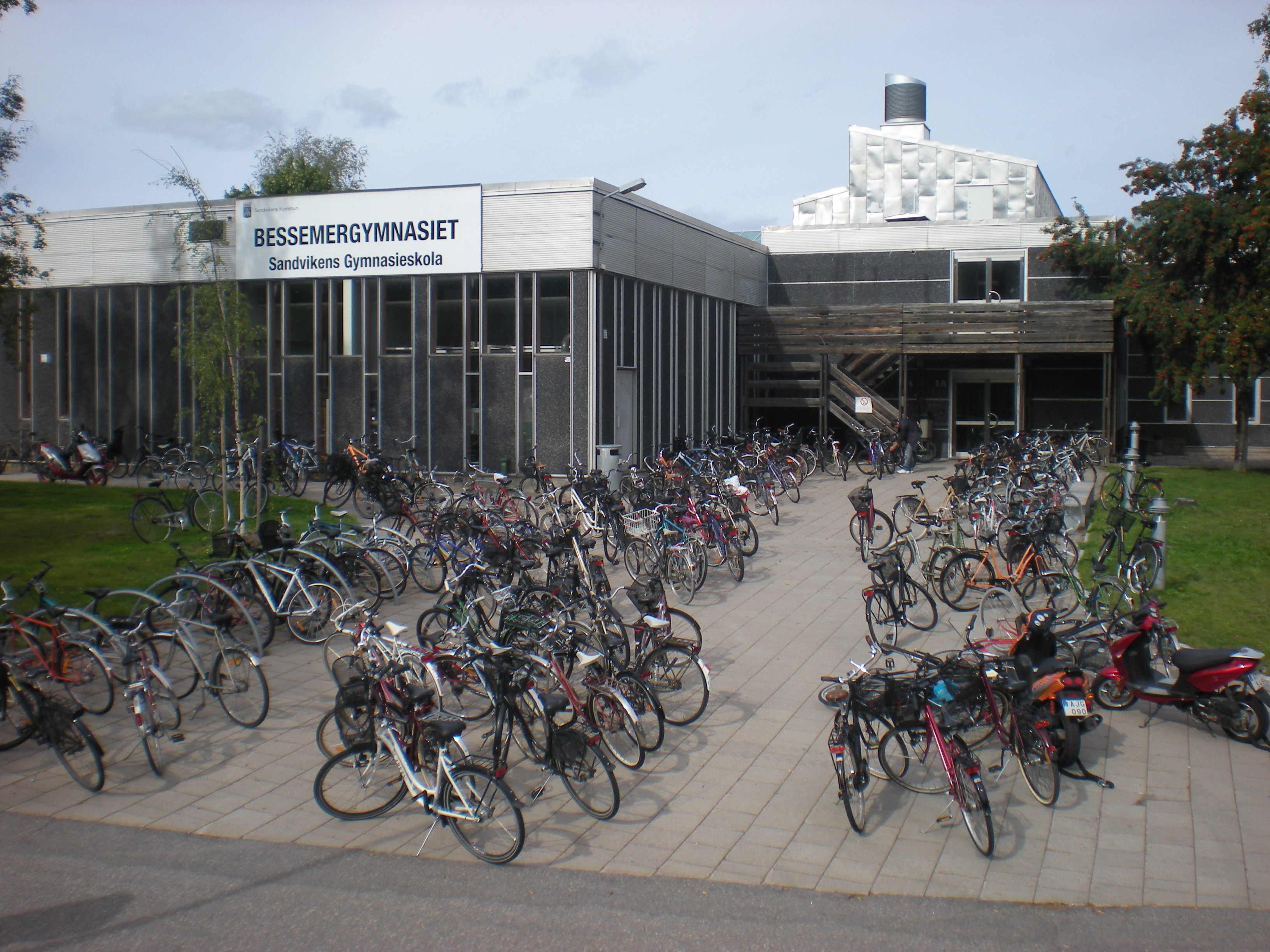 Bessemergymnasiet in Sandviken.